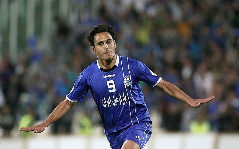 آرش برهانی استقلال تهران